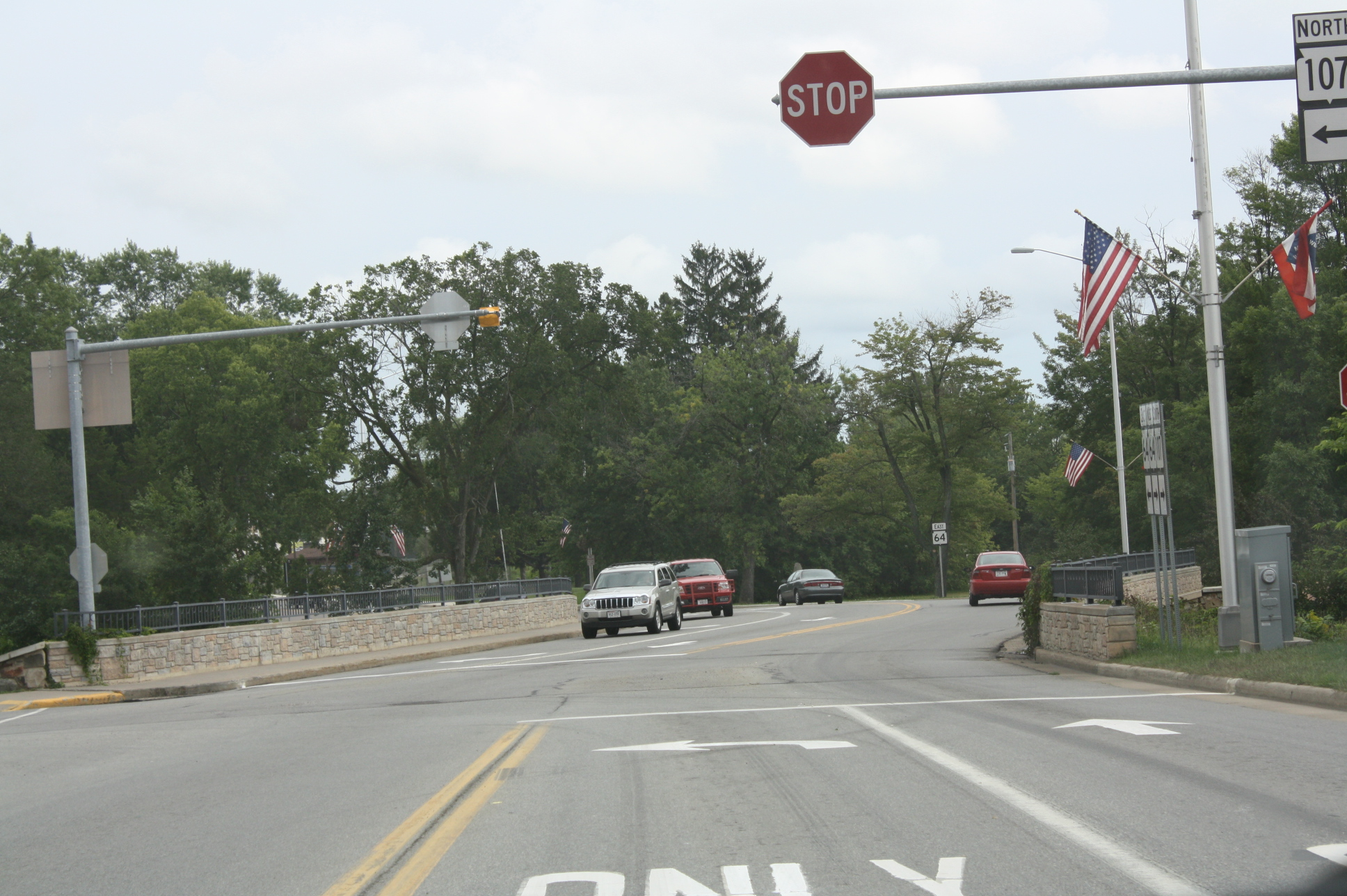 The top of the First Street Bridge in Merrill, Wisconsin. It is listed on the National Register of Historic Places.